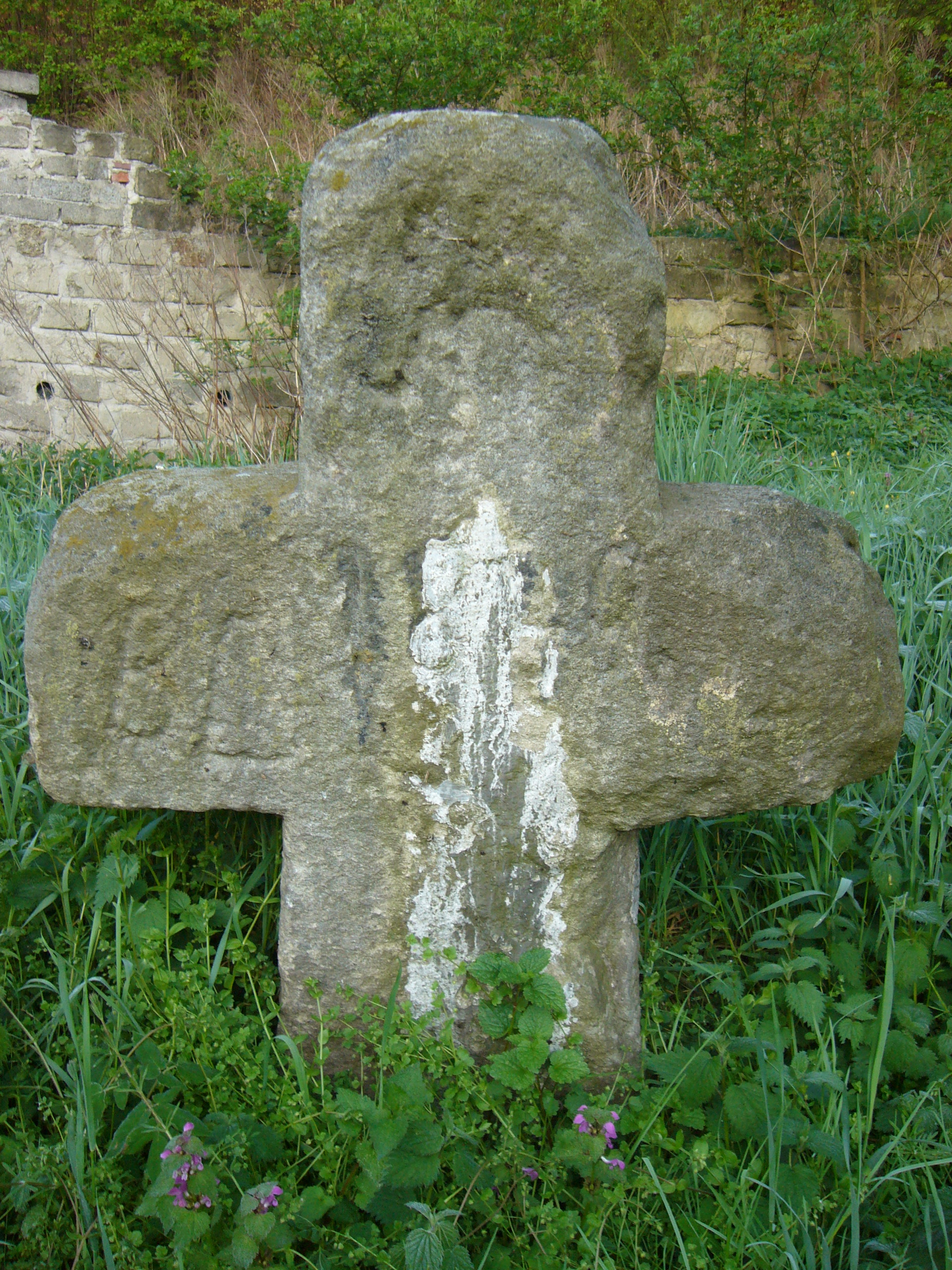 penancy cross in Lwowek Slaski, dolnoslakie vojvodship at the road to Boleslawiec